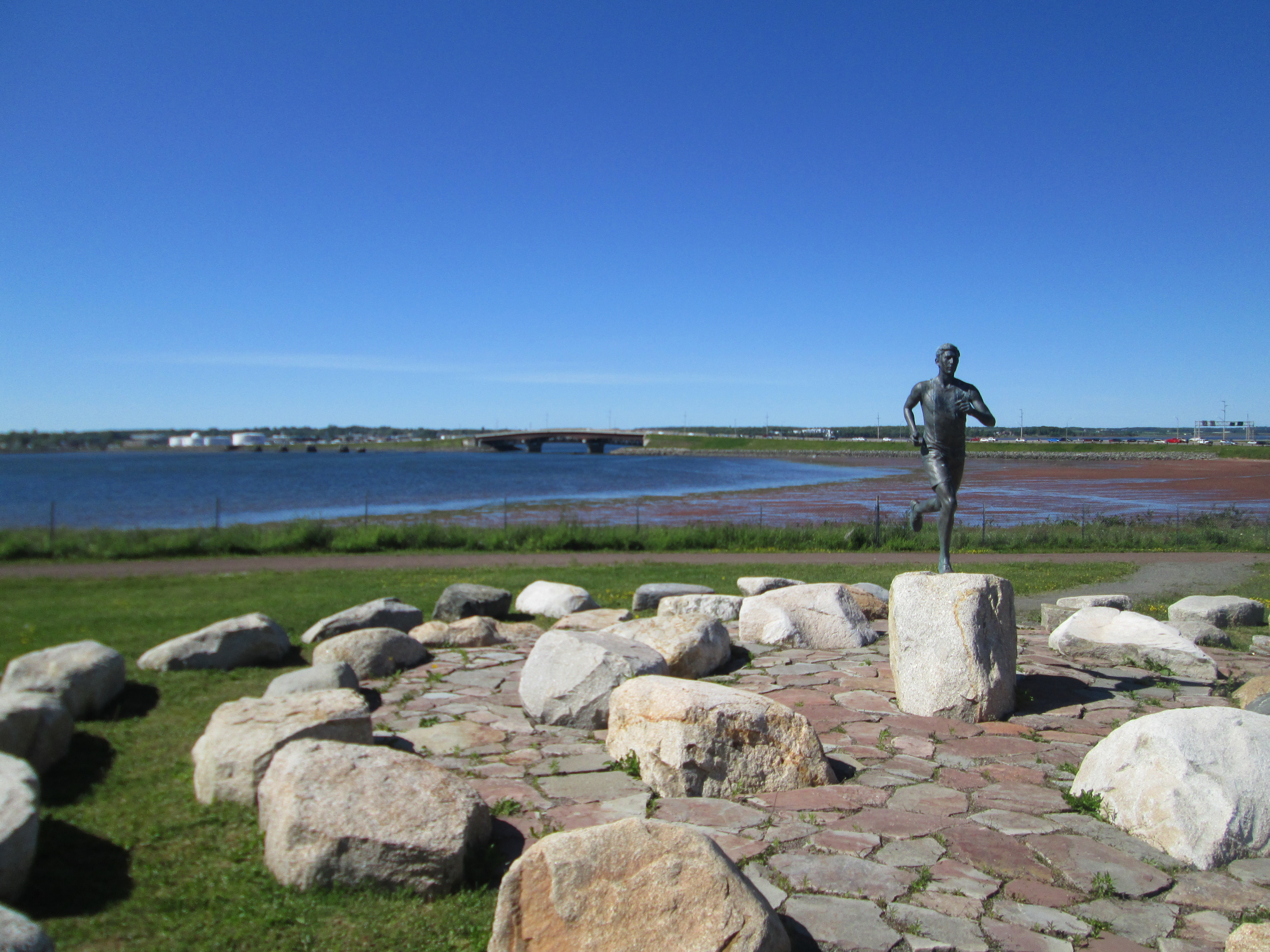 June 26, 2018. Sculpture of Michael Thomas